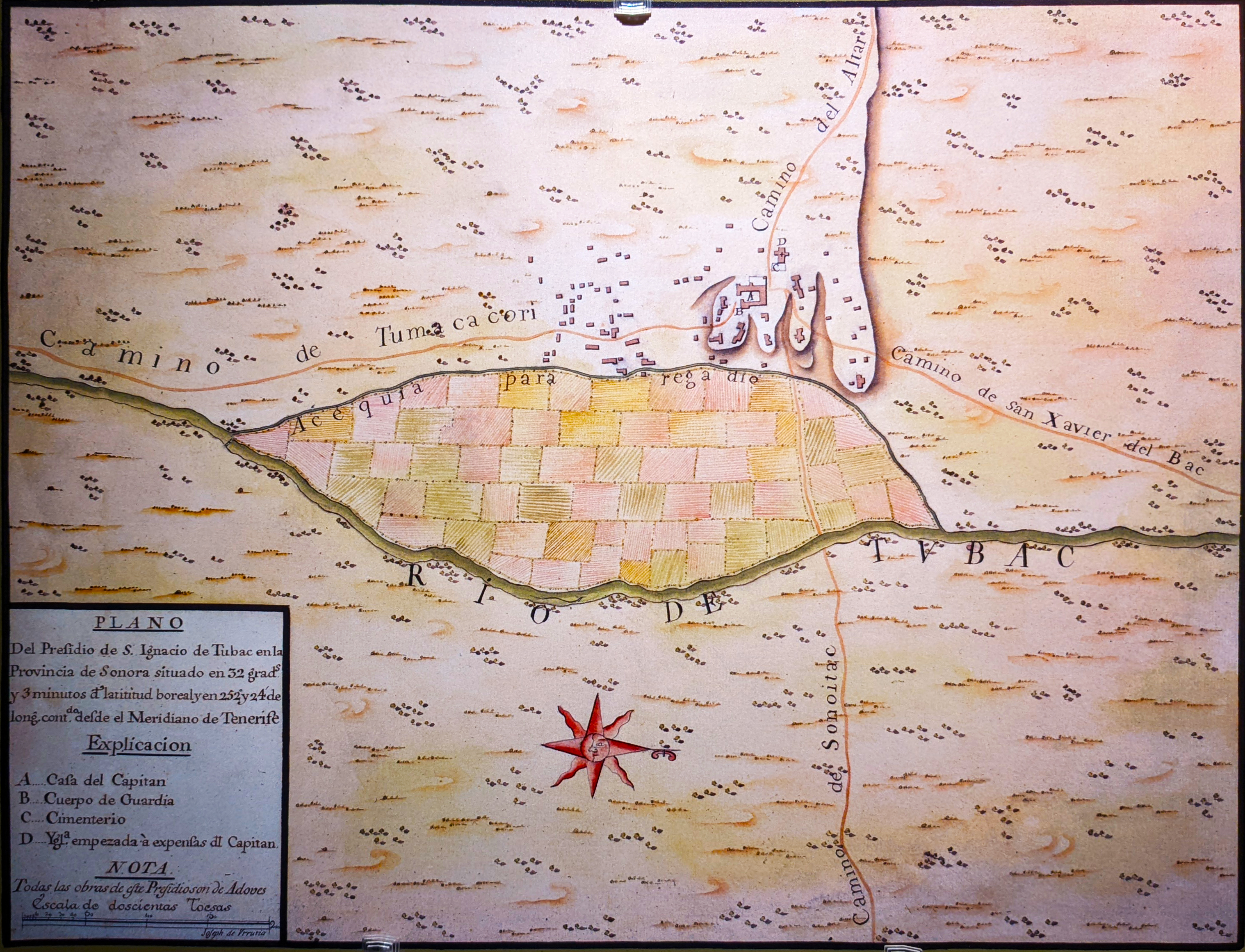 Urrutia Map of Tubac: December 1766—January 1767 A Spanish colonial era map locating San Ignacio de Tubac Presidio in the northern Viceroyalty of New Spain (Colonial México). The present-day Tubac Presidio State Historic Park in Tubac, Arizona.